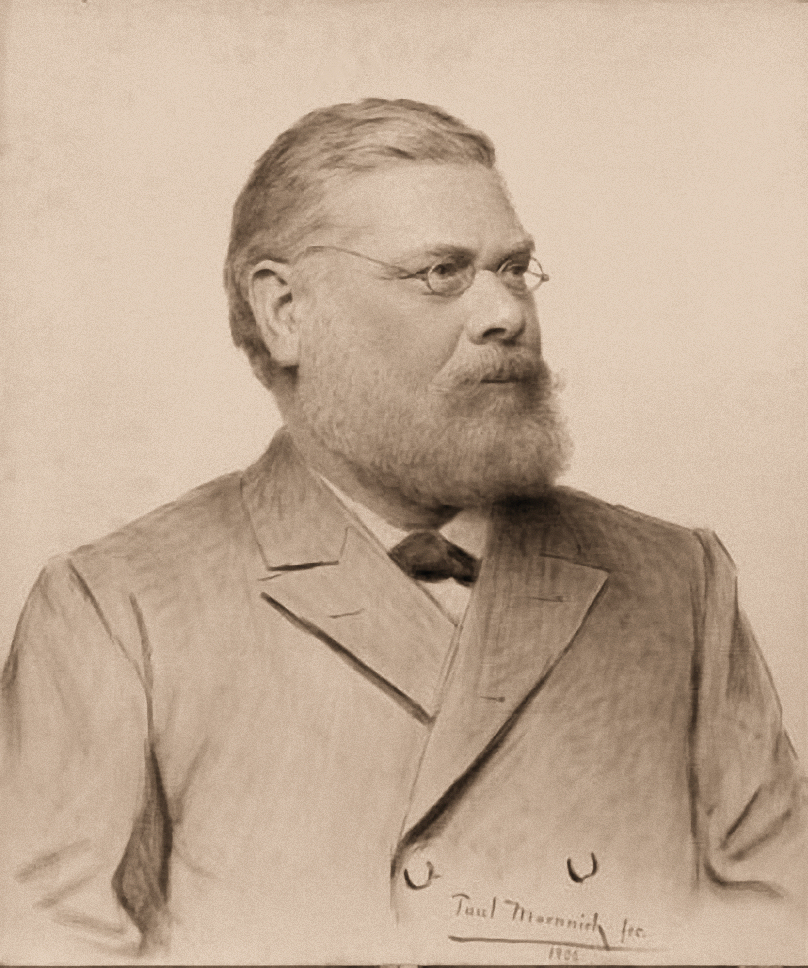 Portrait of Franz Bernhöft, drawing by Paul Moennich, University of Rostock Archive